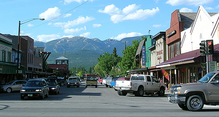 Looking north toward Big Mountain in downtown Whitefish, Montana. This photo was made in May 2006.